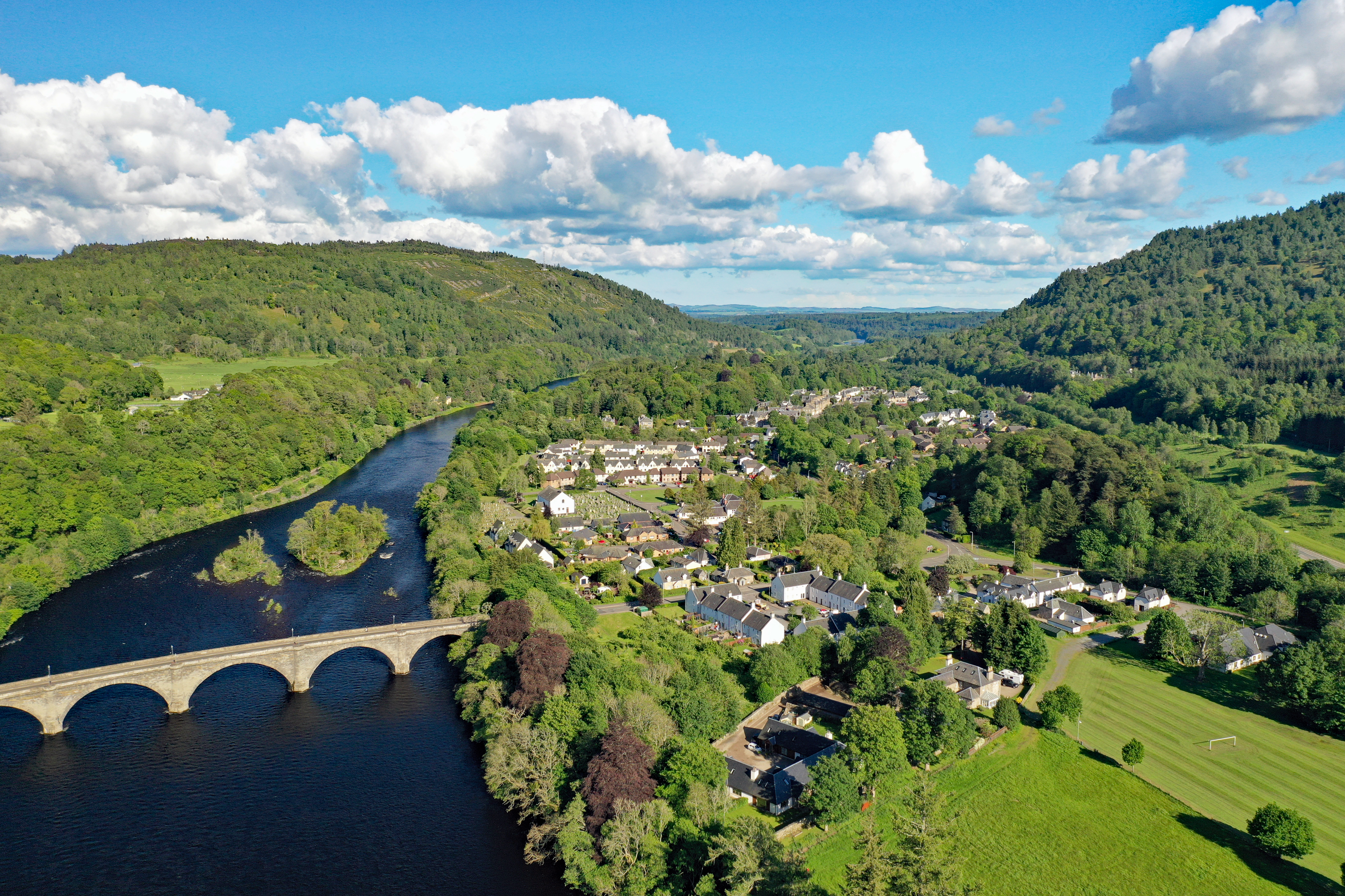 Dunkeld (aerial view, Perth & Kinross, Scotland, UK)